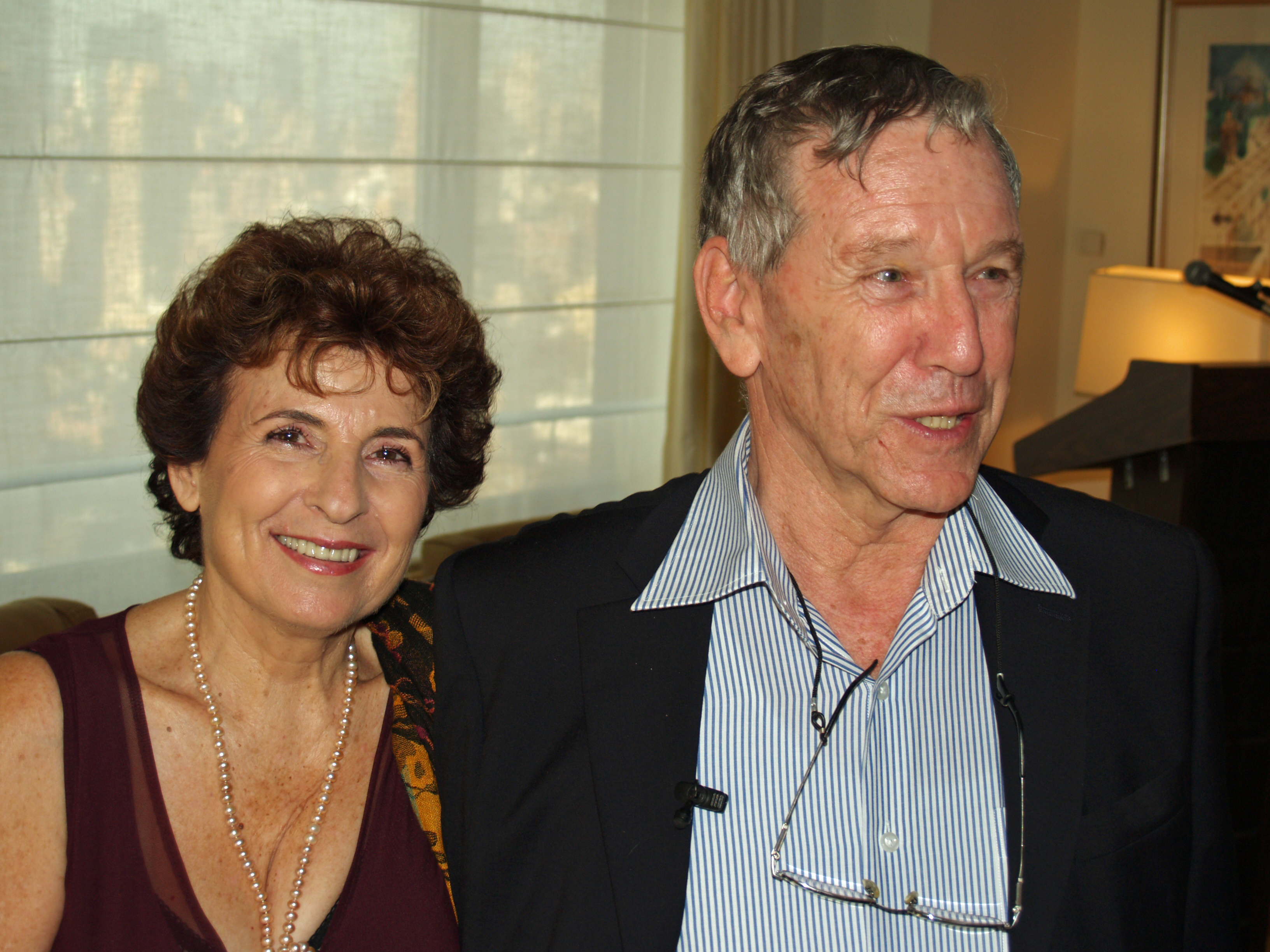 Amos Oz and his wife Nily Oz at a breakfast honoring Israeli literary legend Amos Oz on the Upper East Side of Manhattan in New York City. Photographers blog post about this event and photograph.